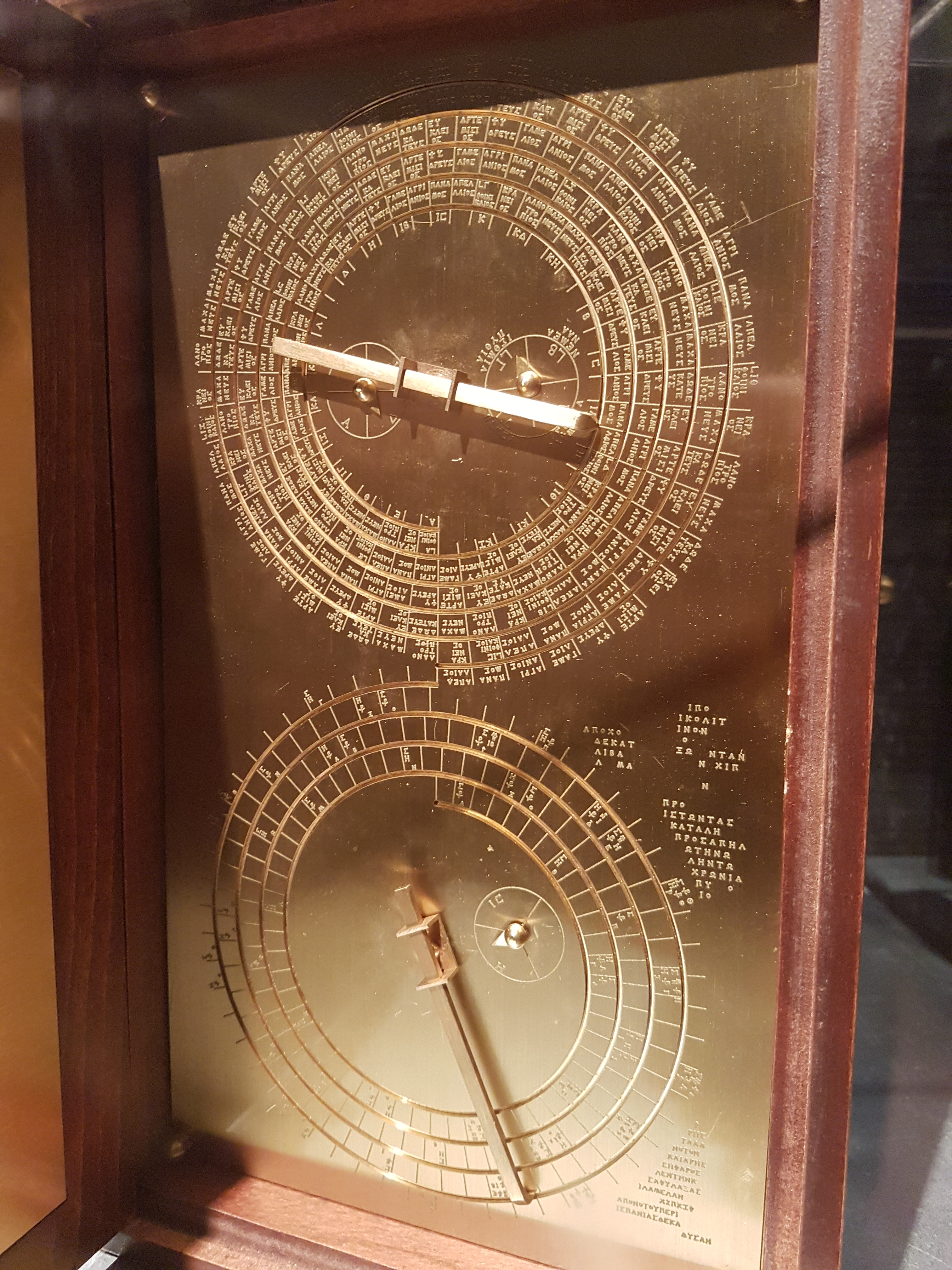 Antikythera mechanism clockface, 1st-2nd century BC, Greece (model by Aristotle University of Thessaloniki). Thessaloniki Technology Museum